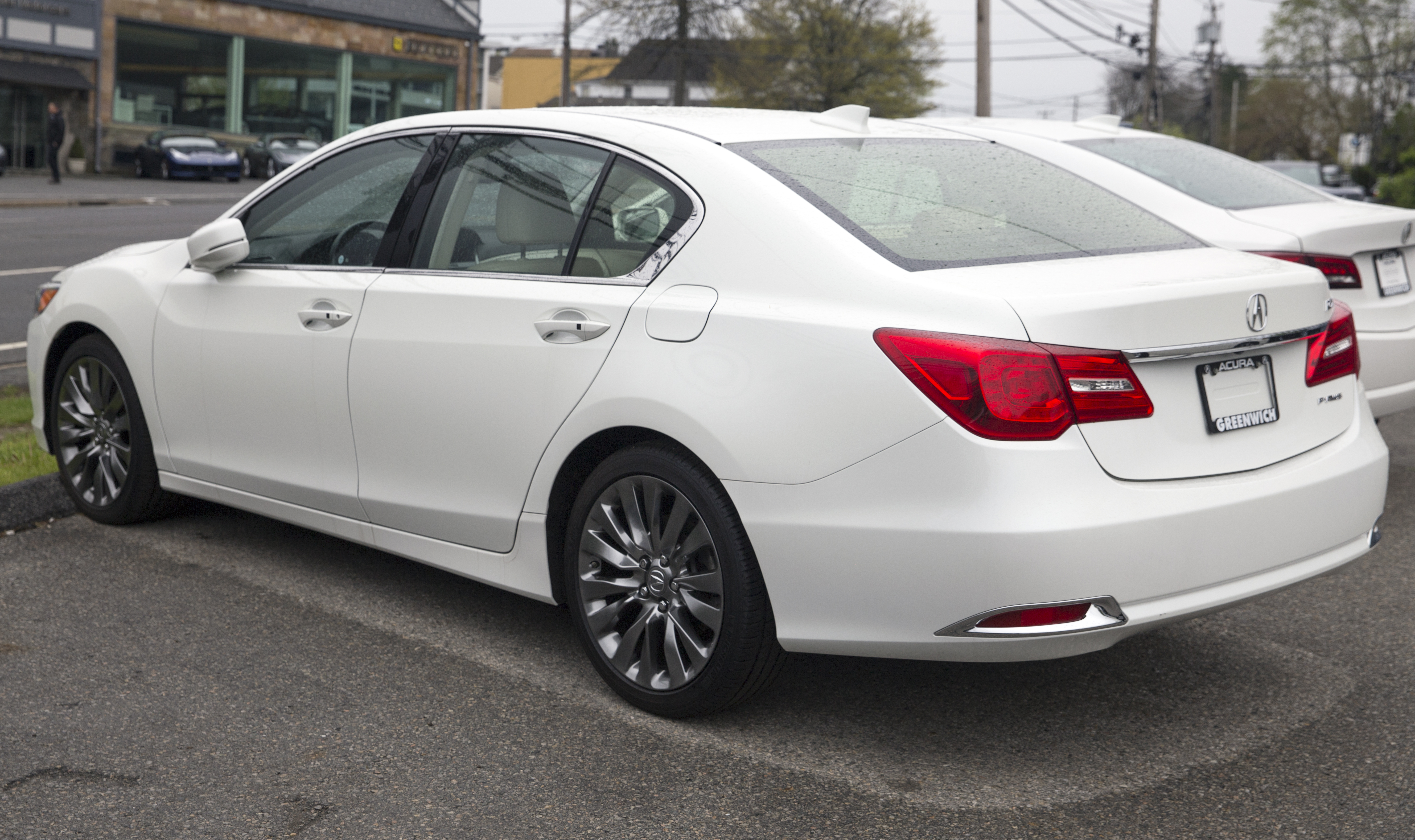 A 2017 Acura RLX Technology Package in Bellanova White Pearl with Seacoast interior. 2017 was the worst year for the already slow-selling RLX, with a mere 1237 deliveries in the US during the calendar year. Sales inched up somewhat after the facelift, but this car still makes no sense whatsoever.